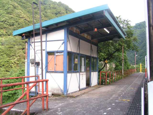 Hida-nakayama Station in summer